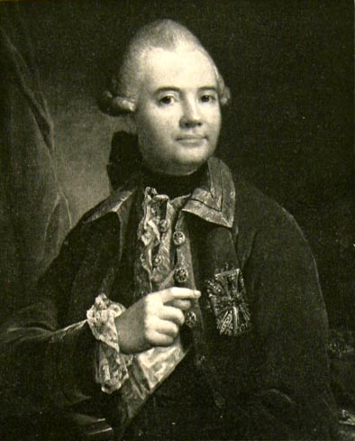 Hans Gustav Lillienskiold (1727-1796), Danish nobleman, estate owner, and naval officer